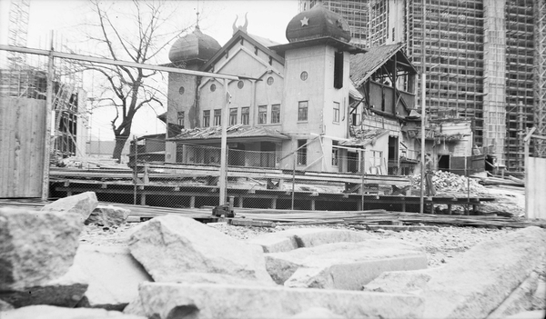 Tivoli Theater in the amusement park Christiania Tivoli in Oslo, 1936.